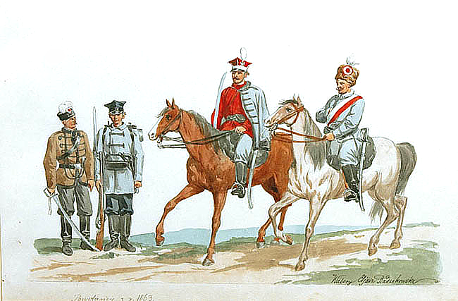 Polish insurgents from 1863